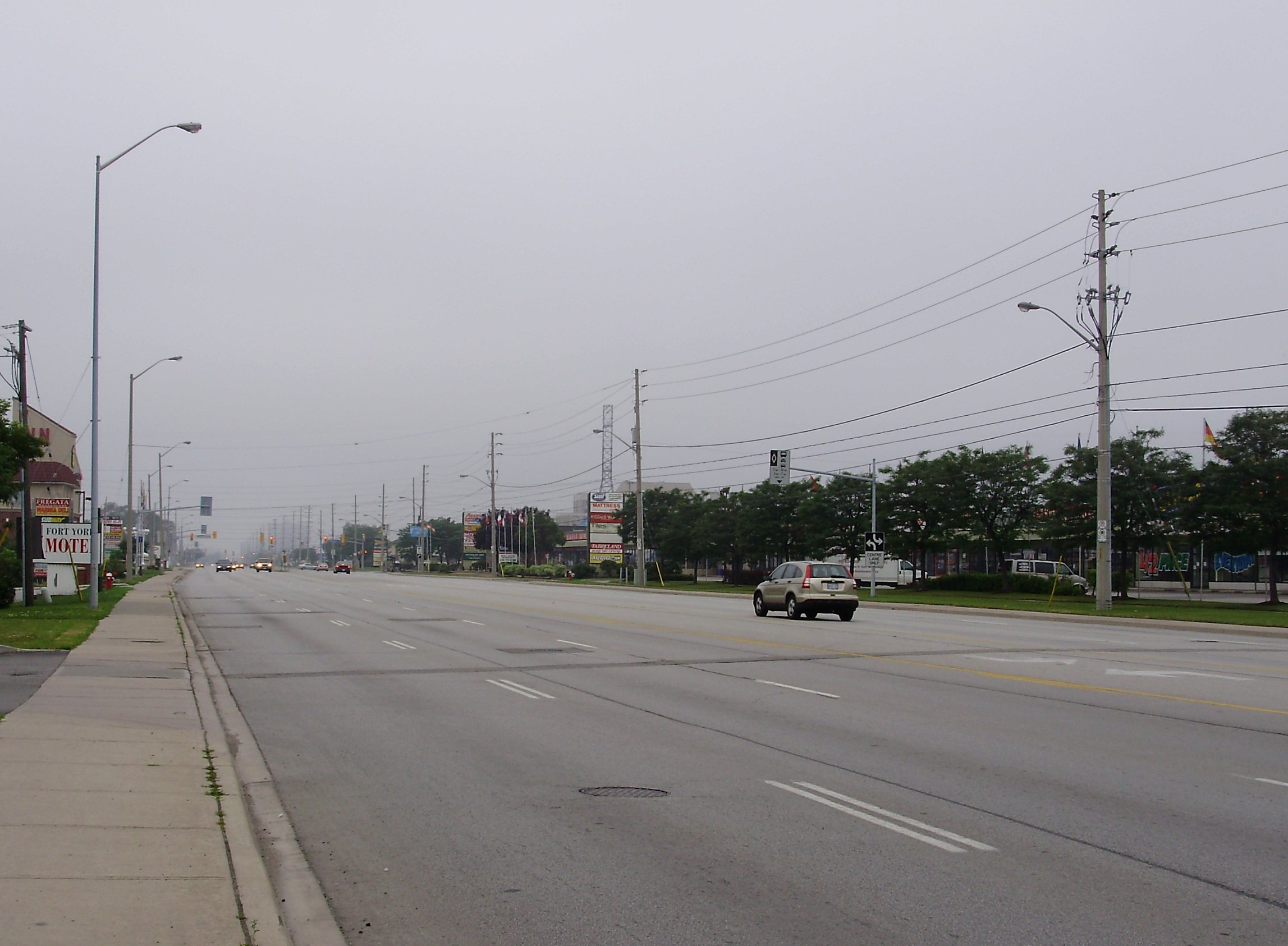 Dundas Street East in Mississauga, Canada, looking west toward Wharton Way.